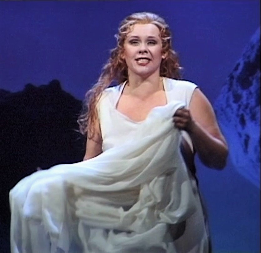 Solveig Kringelborn filmed at Opernhaus Zurich, performing in the opera Oberon by Weber. Amongst the sopranos Eddy Seesing investigated posture, pose and clothing as characterizations of professional profile. During the photo rehearsal each soprano is followed closely with a video camera, trying to isolate them. From these video recordings a fragment of each soprano is selected varying in length between 30 seconds and one minute. Seesing concentrated on the focal point of the drama, the soprano's: Expression, Mimicry, Facial distortions during vocal climaxes, Postures and Gesticulation. To emphasize these elements slow motion is used - 10 times slower than the normal speed. The short pieces thus created are constantly repeated in a loop. Six video's are simultaneously projected onto the exhibition space's walls, one per soprano. A sound fragment of every soprano each with a maximum duration of 3 minutes is played in the installation separate from the video images.